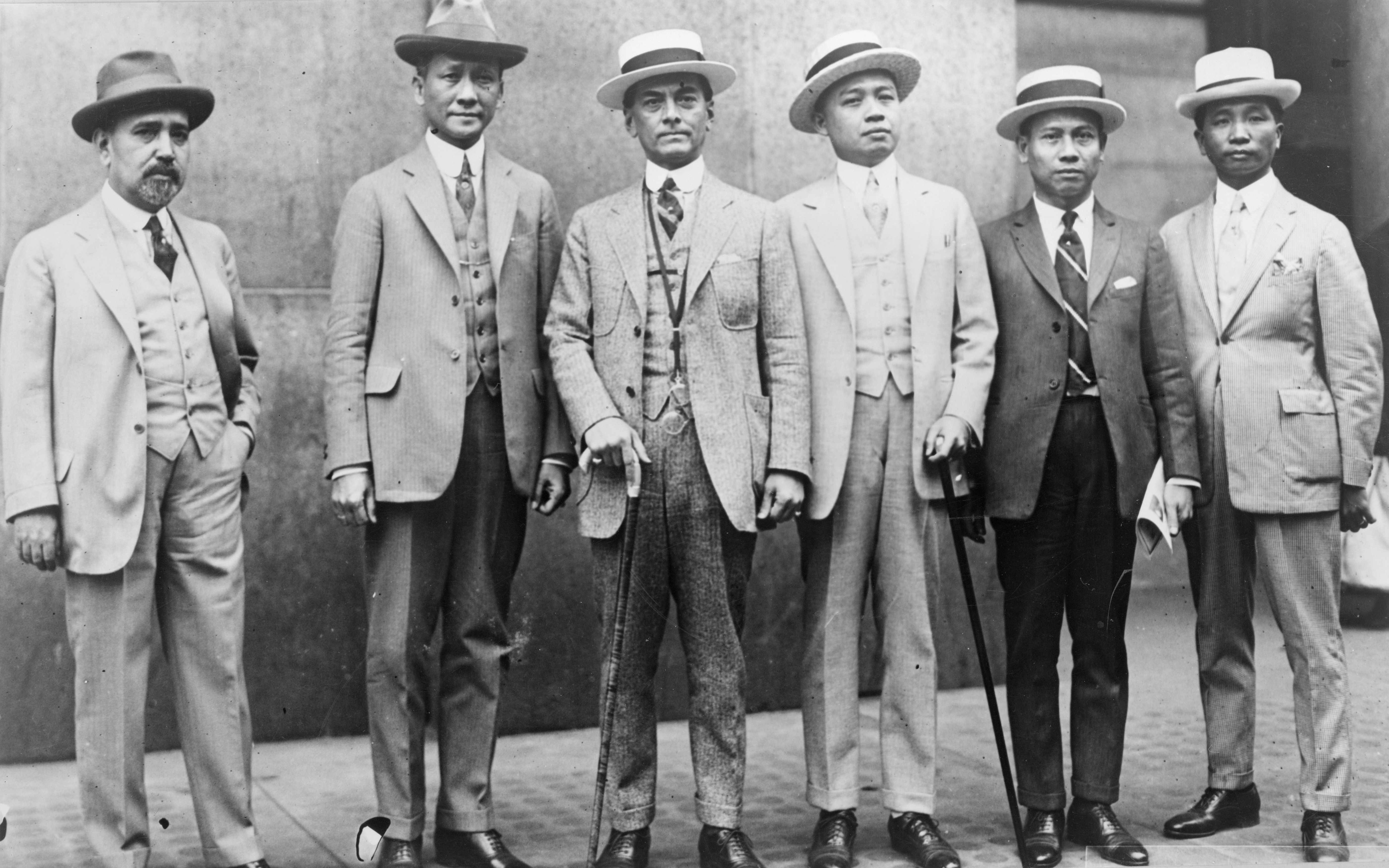 Title: [Manuel Luis Quezon, (center), with representatives from the Philippine Independence Mission] Date Created/Published: 1924 June 20. Medium: 1 photographic print. Summary: Photo shows left to right: Hon. Isauro Babaldon, Philippine President Commissioner to the U.S.; Hon. Sergio Osmana, member of the Philippine Senate; Hon. Manuel L. Quezon, President of the Philippine Senate, Chairman; Hon. Claro M. Recto, Member and Minority Leader in the Philippine House of Representatives; Hon. Pedro Guevara, Philippine President Commissioner to the U.S.; Dean Jorge Bocobo, Technical Adviser to the Mission. Reproduction Number: LC-USZ62-139506 (b&w film copy neg.) Rights Advisory: No known restrictions on publication. Call Number: BIOG FILE - Quezon, Manuel Luis [item] [P&P] Repository: Library of Congress Prints and Photographs Division Washington, D.C. 20540 USA Notes: Title devised by Library staff. No. 365081. Note on verso: Filipino representatives who have come ten thousand miles to attend the Democratic National Convention and urge incorporation in the Democratic Platform of a Phillippine Immediate Independence Plan Plank. The mission is headed by the Hon. Manuel L. Quezon, President of the Philippine Senate, the highest elective office in the Islands.